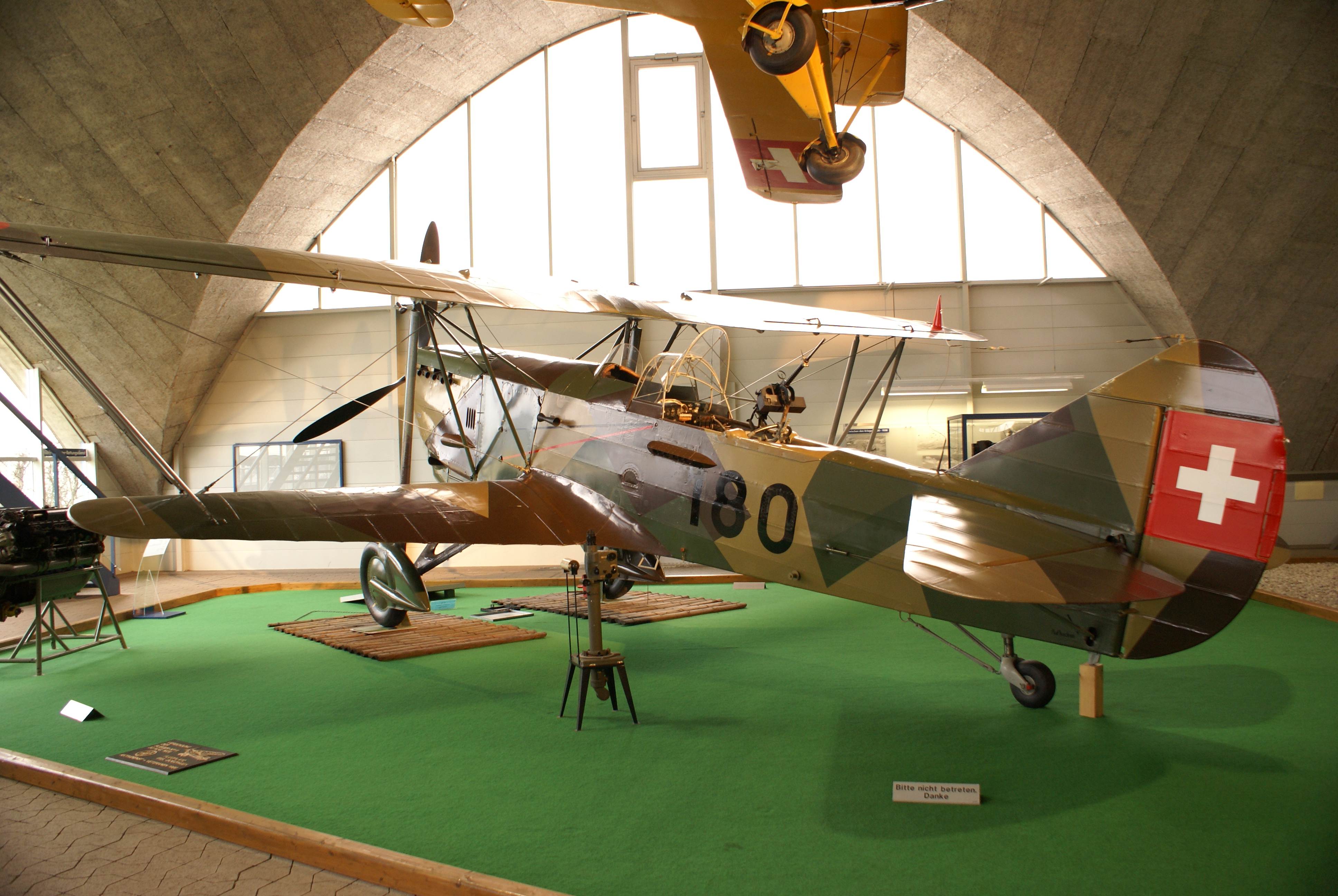 EKW C-35 multipurpose biplane aircraft of the Swiss Army Air Corps.